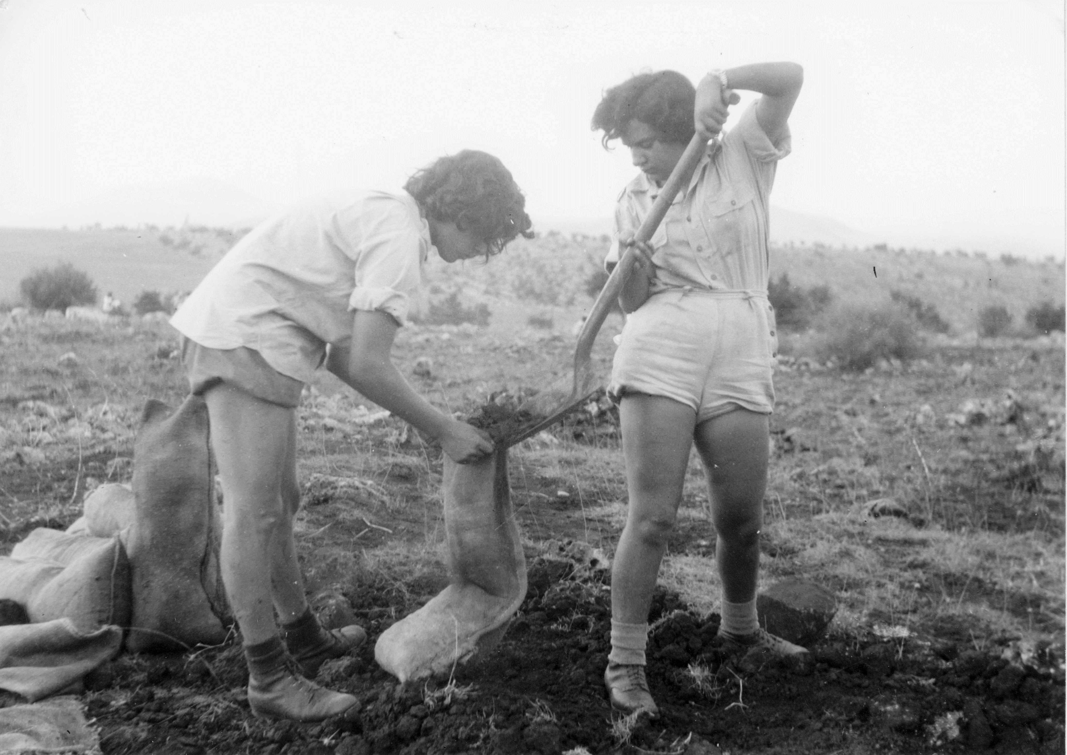 The Palmach, Settlements in Israel